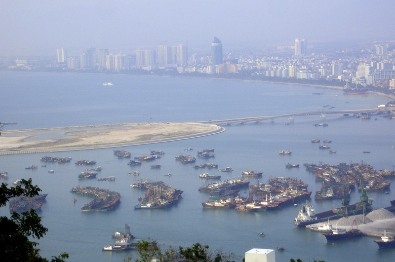 Phoenix Island, an artificial island during early stages of construction, Sanya Bay, Hainan, China